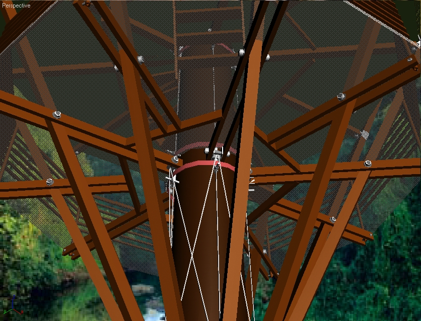 "standard" treehouse design for large host-trees. Features complex load distribution in horizontal and vertical elements of the trusswork, load neutralizing, prestressing of floor suspension by deadload, variable anker that grow outside, reinforcement of ankers by grouping to ring etc.